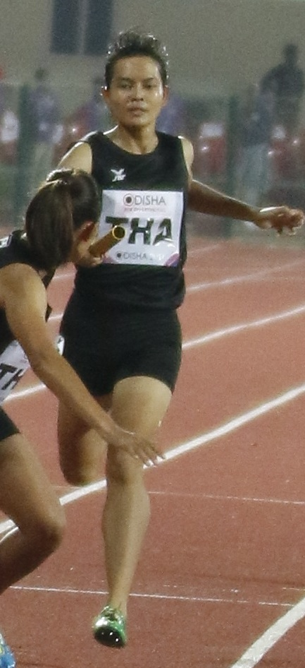 Women's 4x400m Relay Povamma Getting The Baton From Debashree Mazumdar at the 2017 Asian Athletics Championships at the Kalinga Stadium in Bhubaneswar, India